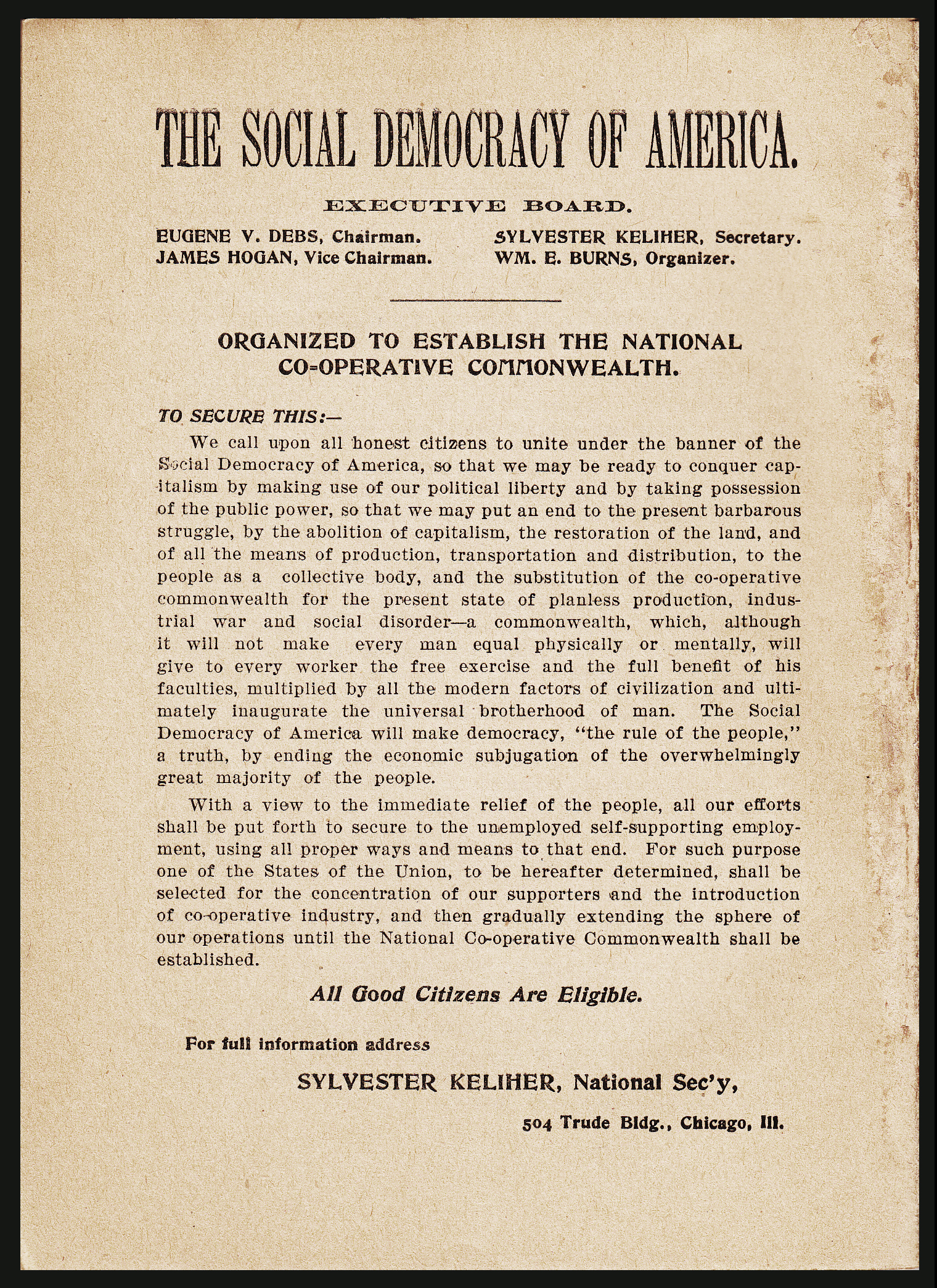 Advertisement published by the Social Democracy of America, December 1897